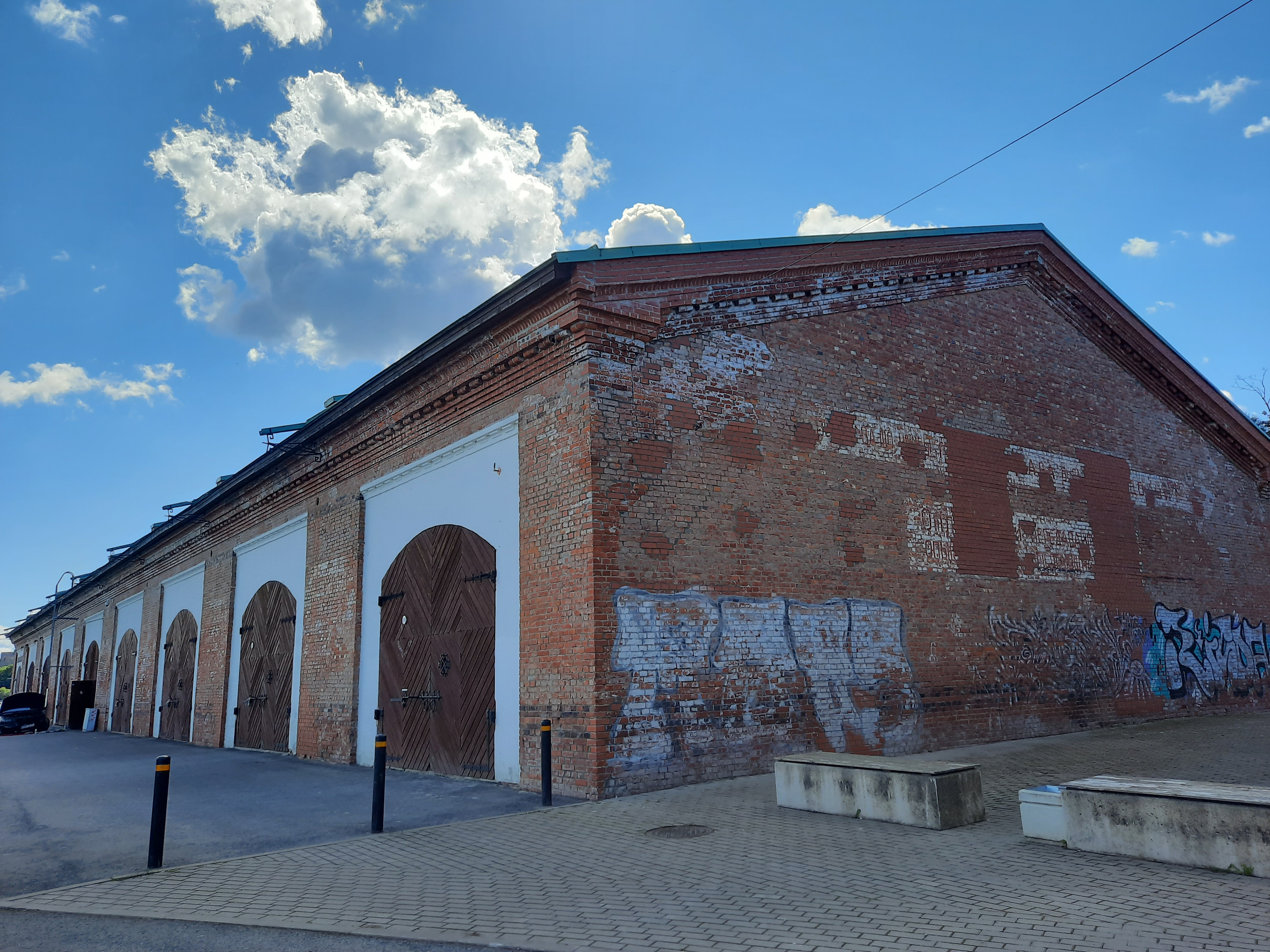 Kreenholm buildings